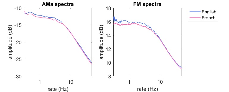 Amplitude (left) and frequency (right) modulation spectra, calculated on a corpus of more than 100 english or french sentences.